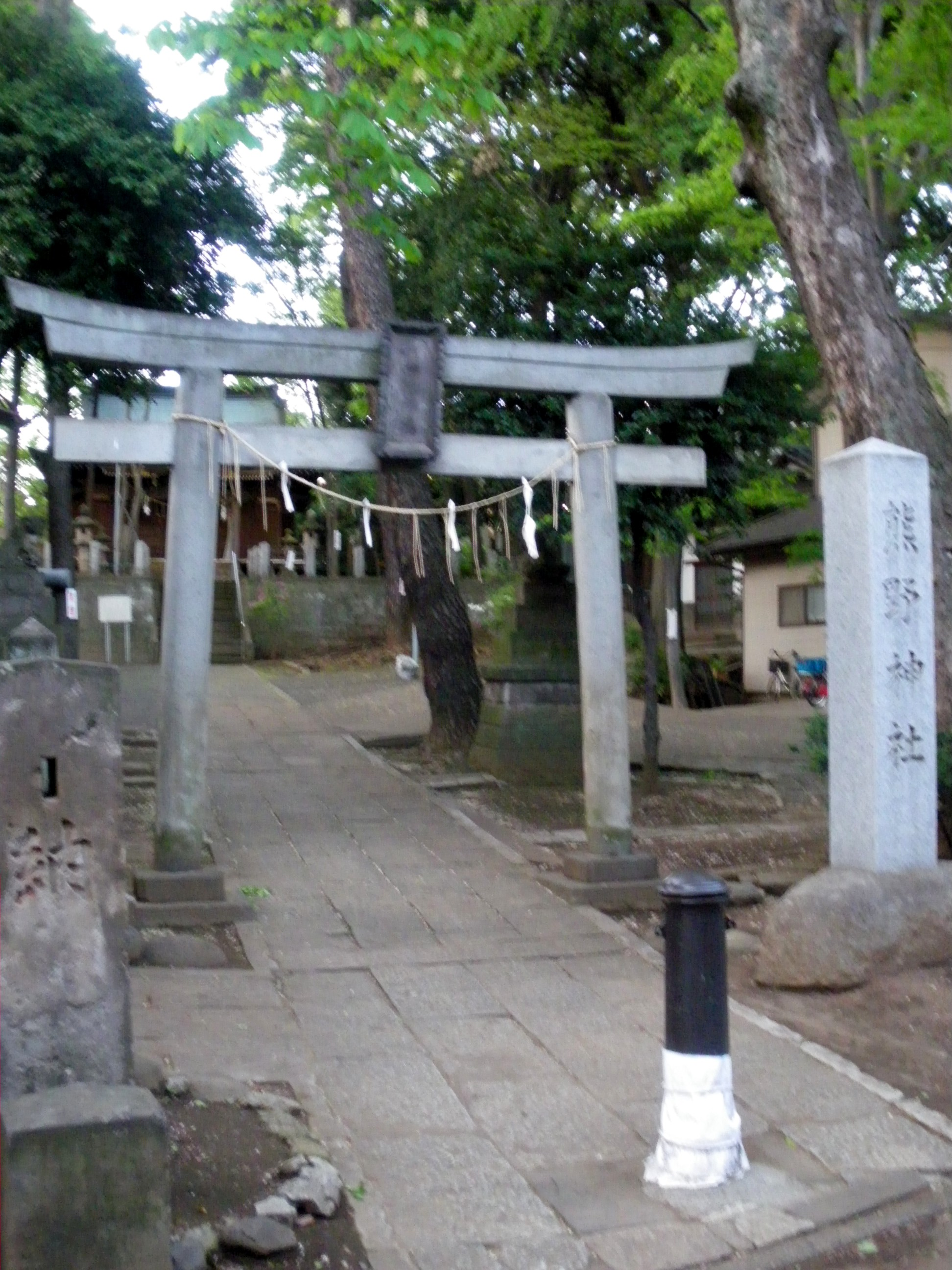 Horinouchi Kumano Jinja(Suginami,Tokyo)